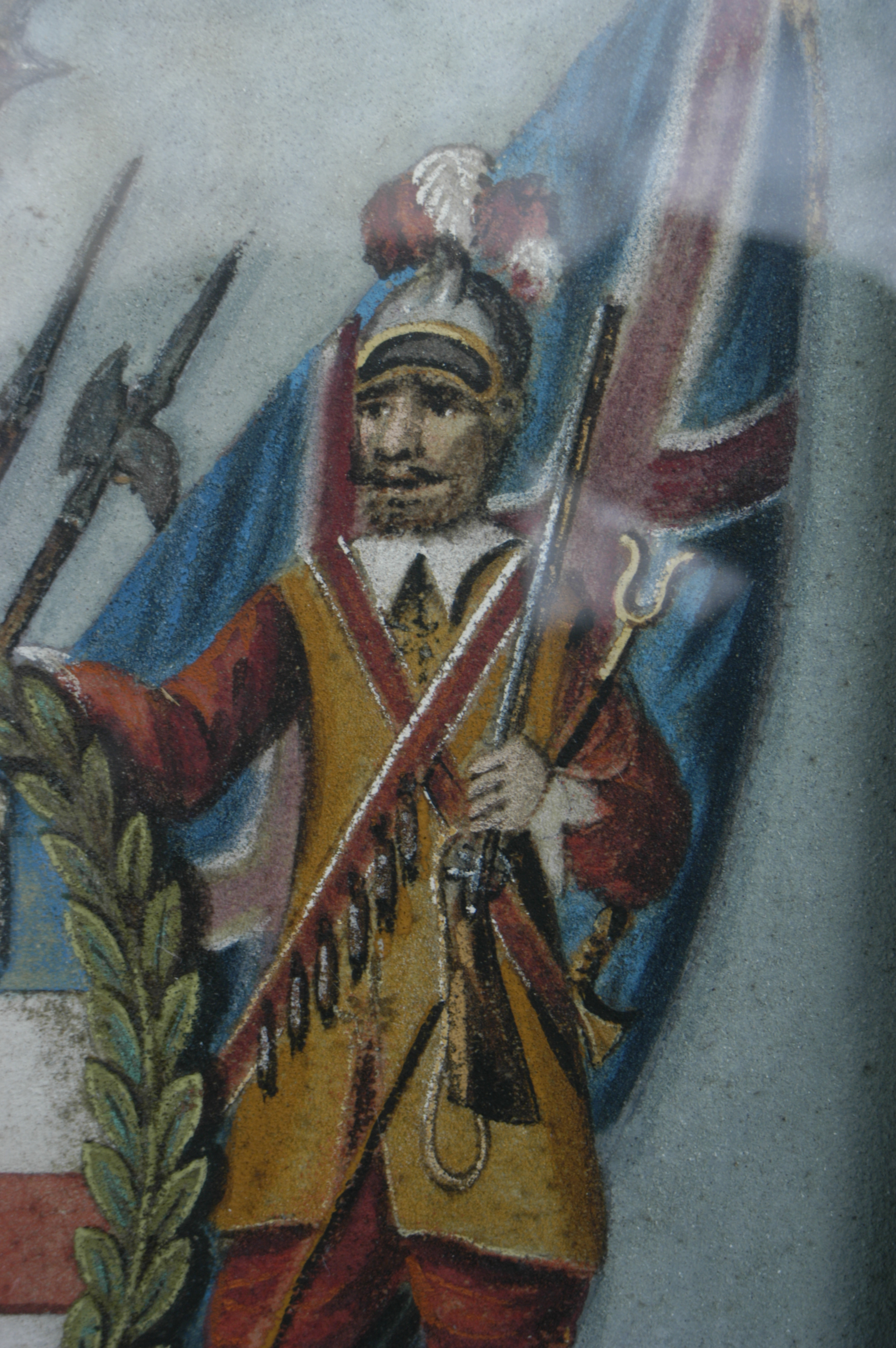 My photo (R. de Salis, Rodolph (talk) 01:16, 5 March 2014 (UTC)) of an heraldic supporter. A Pikeman of the Honourable Artillery Company, in sand. Detail of a full heraldic achievement made in C19th.